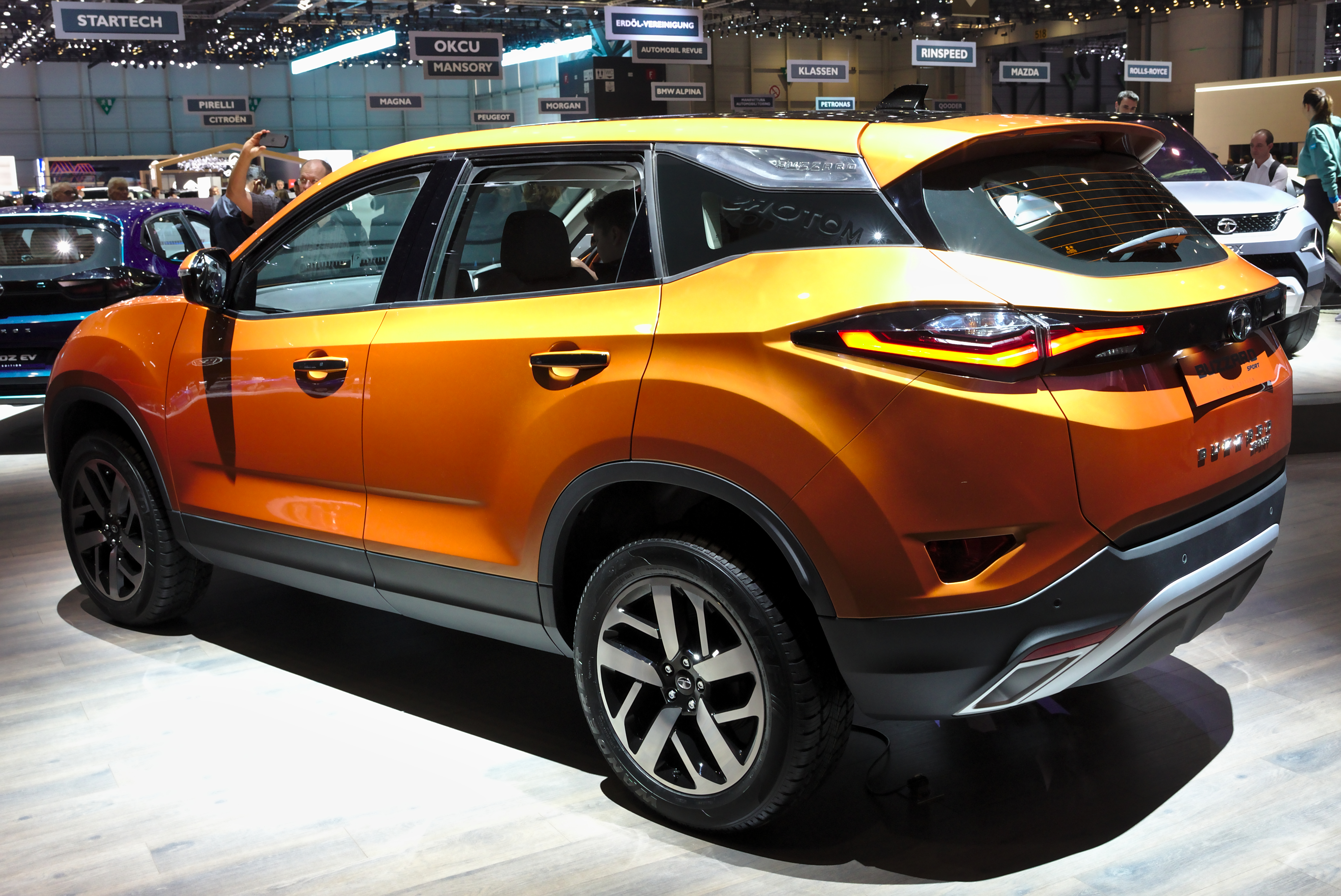 Tata Buzzard Sport at Geneva Motor Show 2019